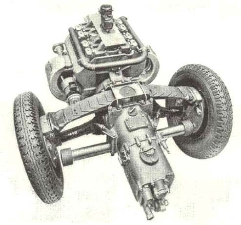 Tatra T77 drivetrain as on a brochure in 1937.